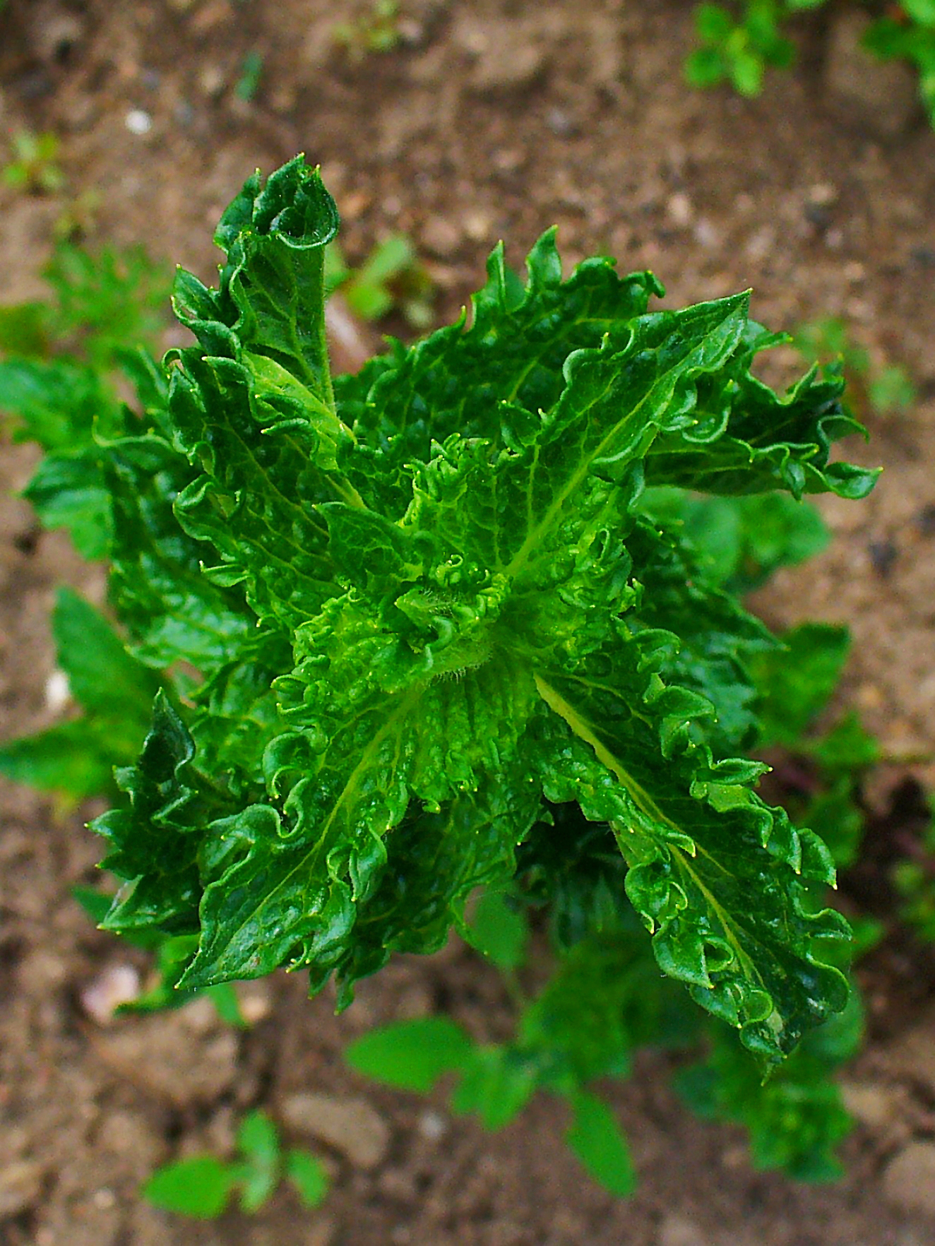 Mentha spicata’’ var.’’ crispa, Lamiaceae, Curly Leaved Mint, leaves.